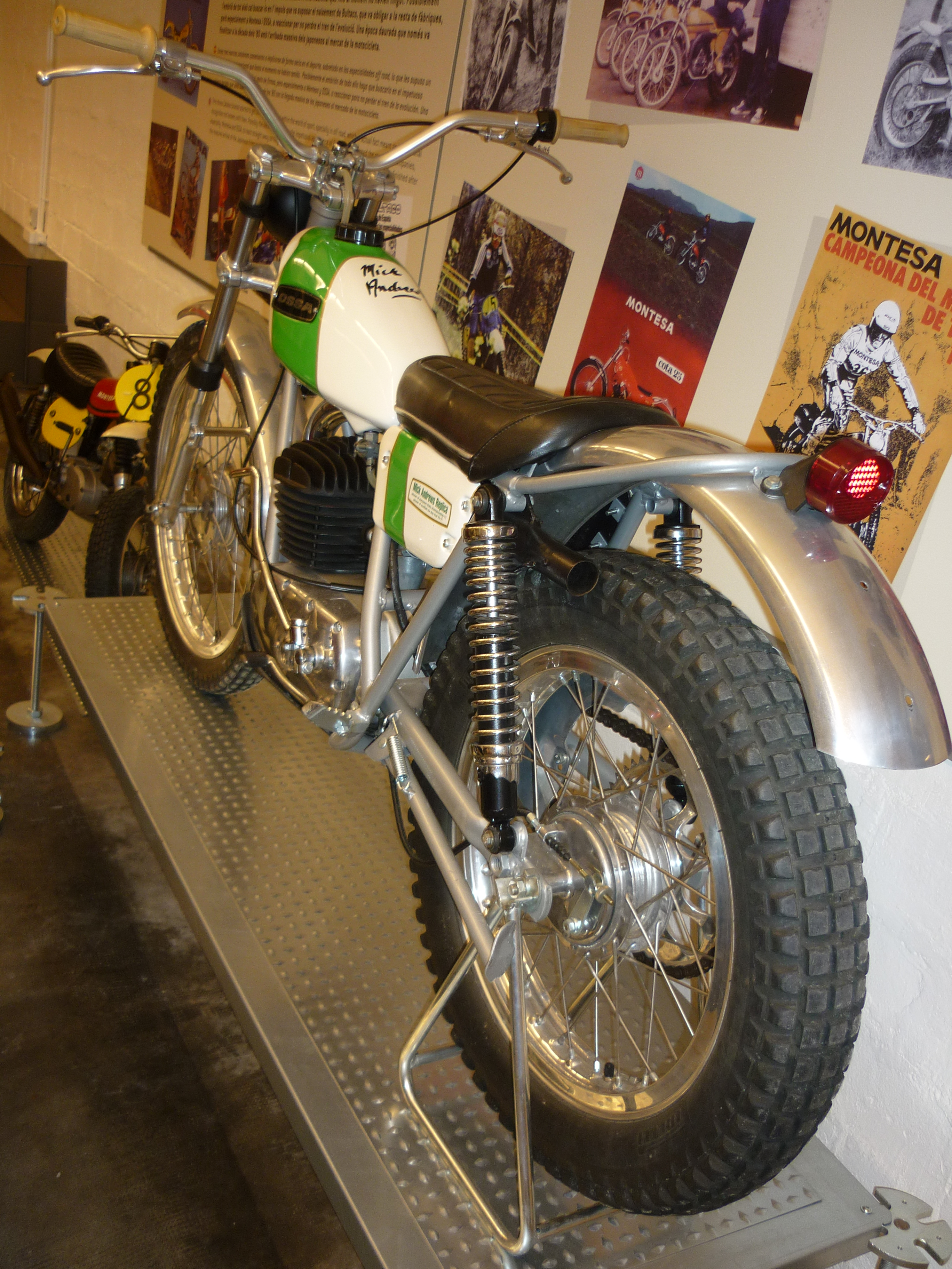 OSSA MAR ("Mick Andrews Replica") 250cc, 1972. There is a Mick Andrews signature on its tank.Museu de la Moto de Barcelona (Catalonia).